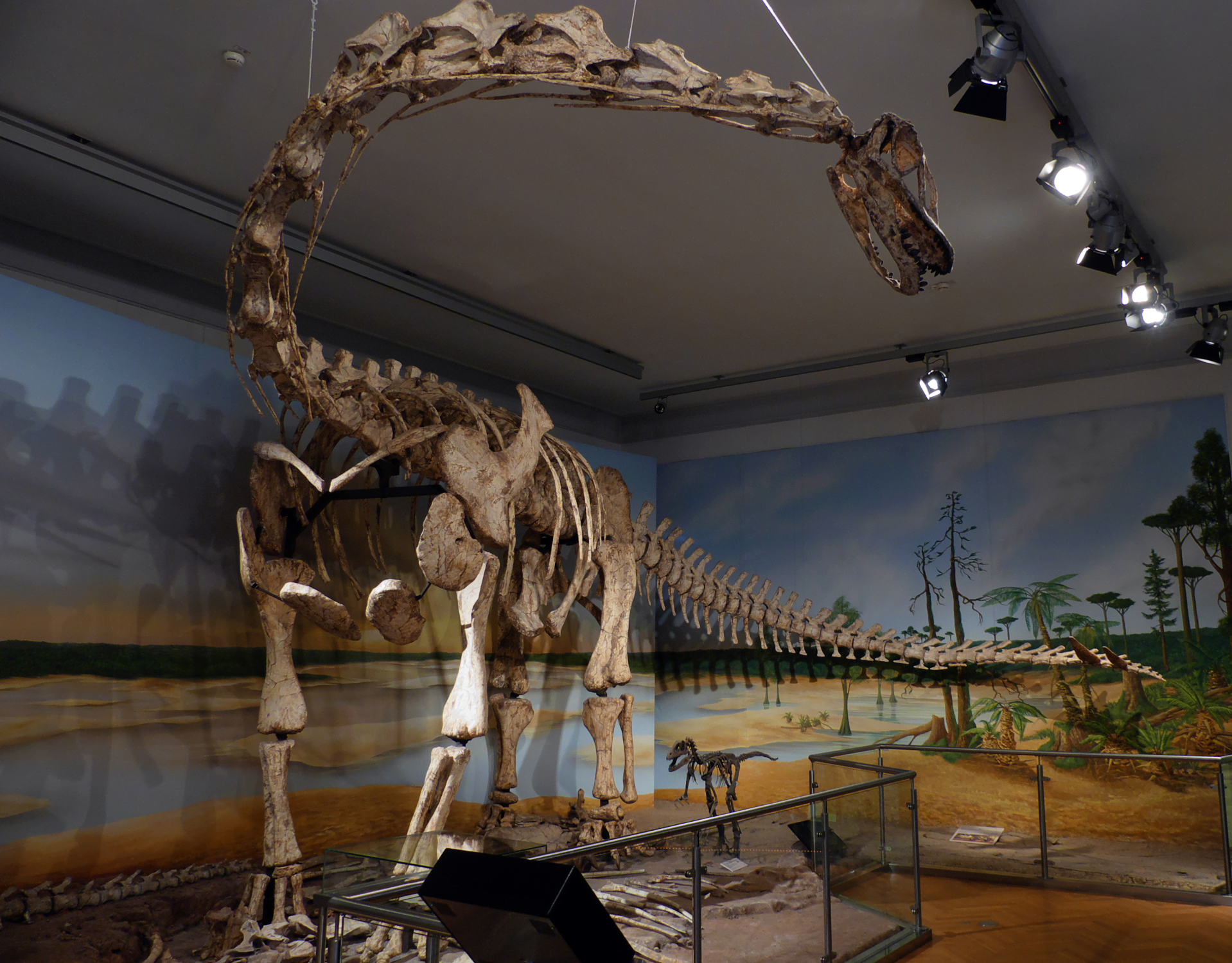 Dinosaurier Skelett im Naturkundemuseum Braunschweig.